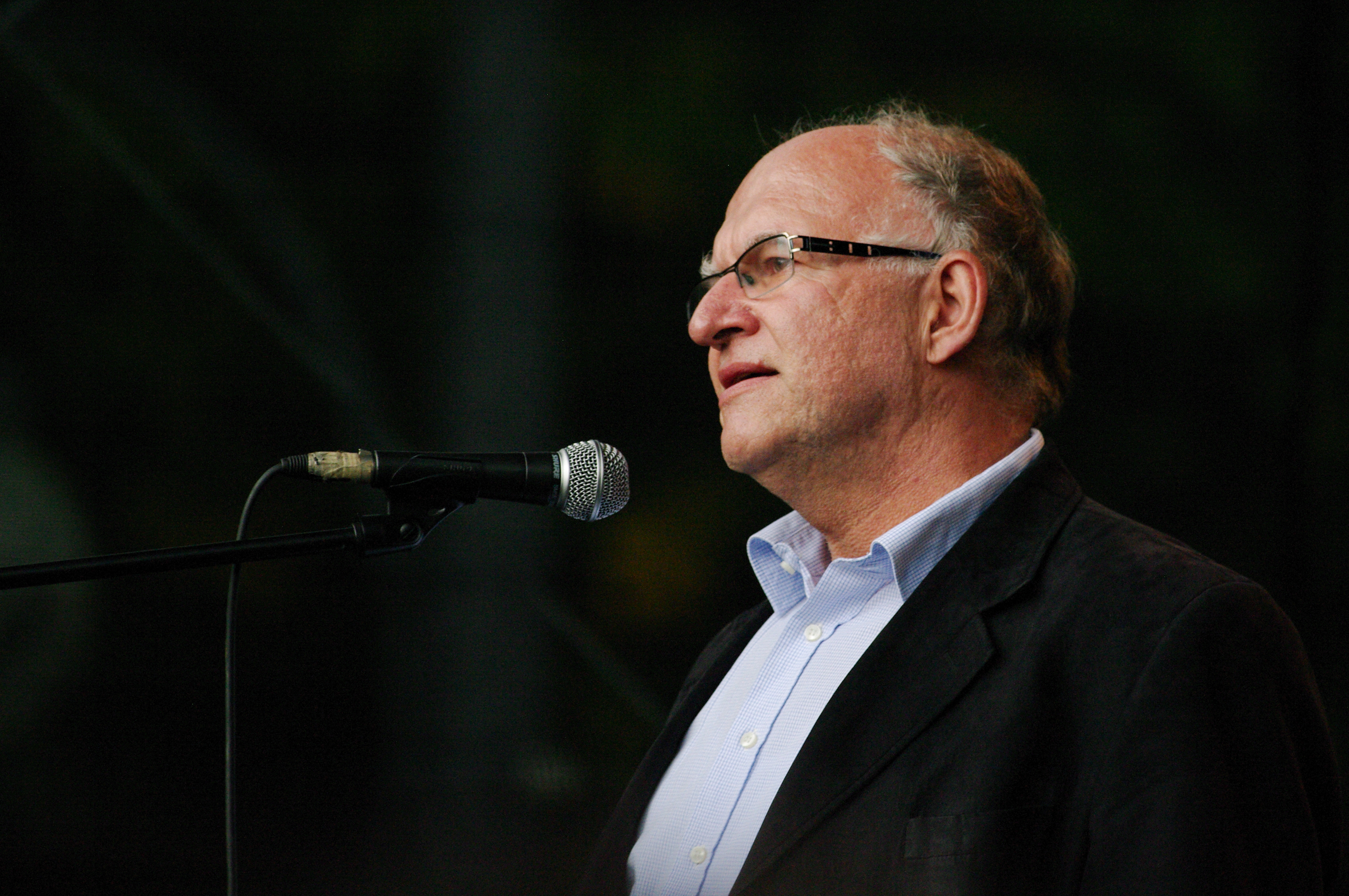 Freedom not Fear demonstration 2014